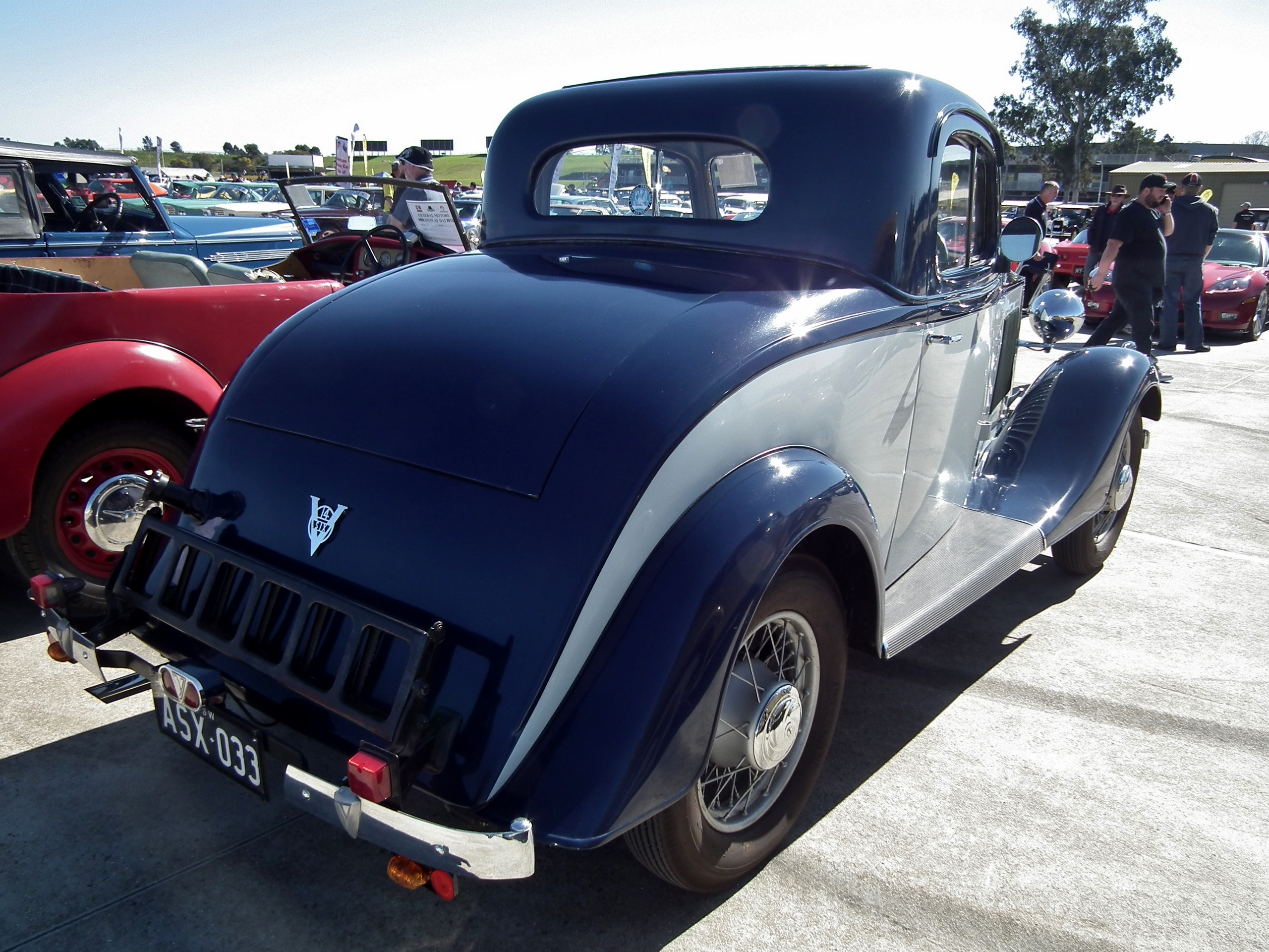 1933 Vauxhall ASX 14/6 coupe. Body by Holden. Taken at the 2013 Shannon's Eastern Creek Classic display day, held at Sydney Motorsport Park.